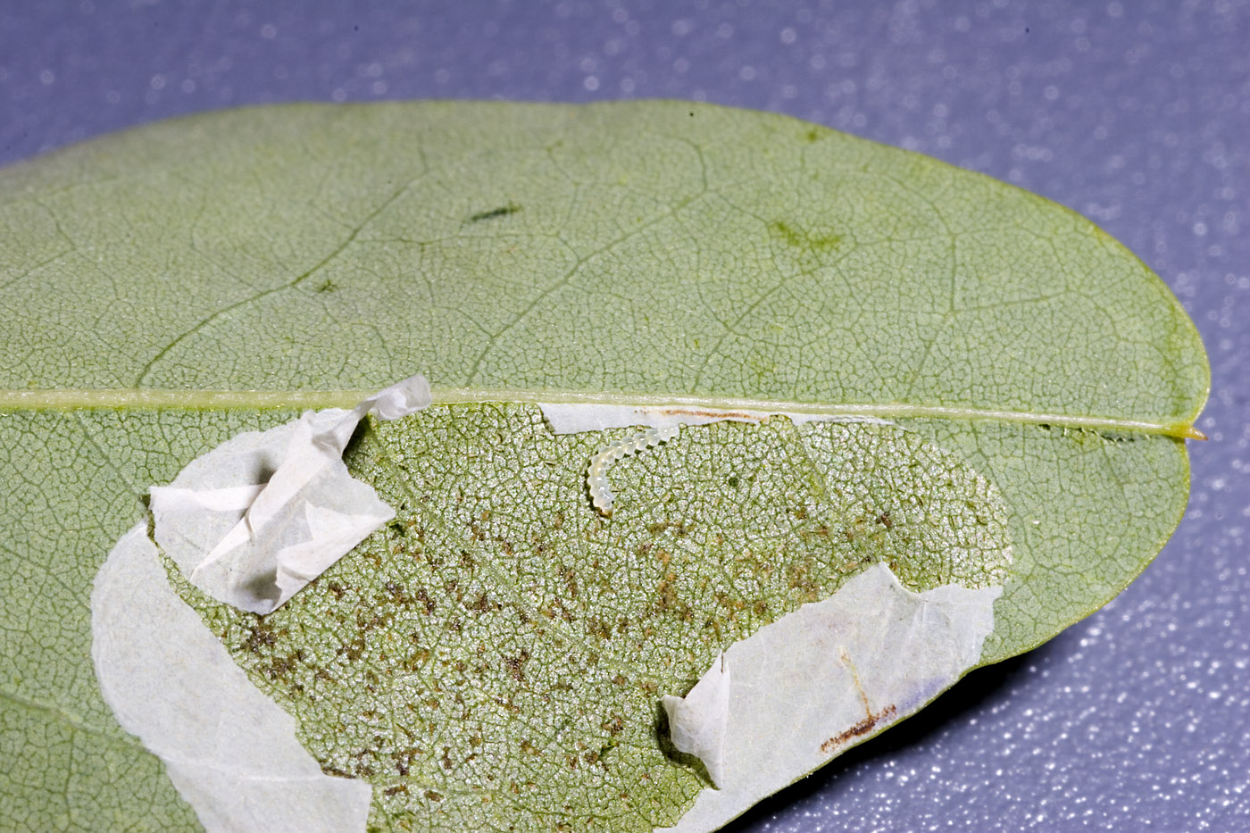 caterpillar of Phyllonorycter robiniella